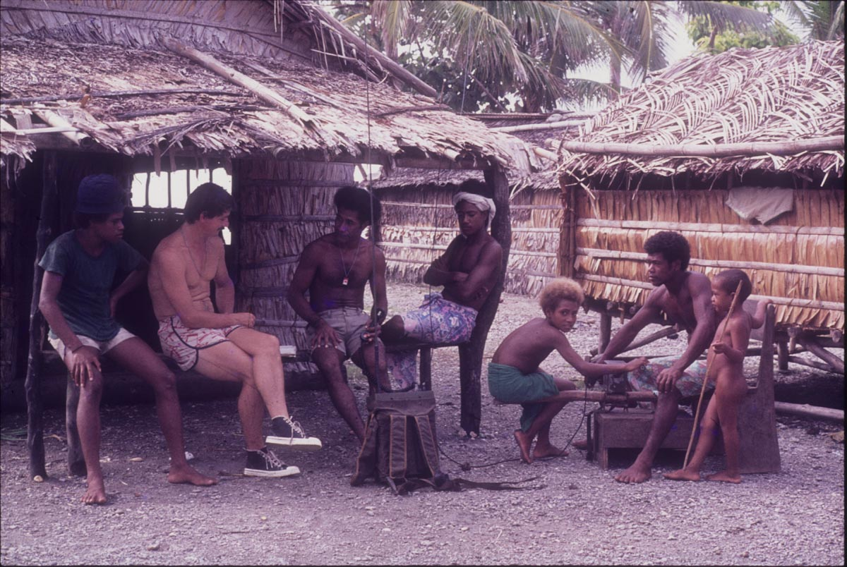 Foss Leach ordering medical supplies after repairing a radio transmitter, Taumako island, 1978